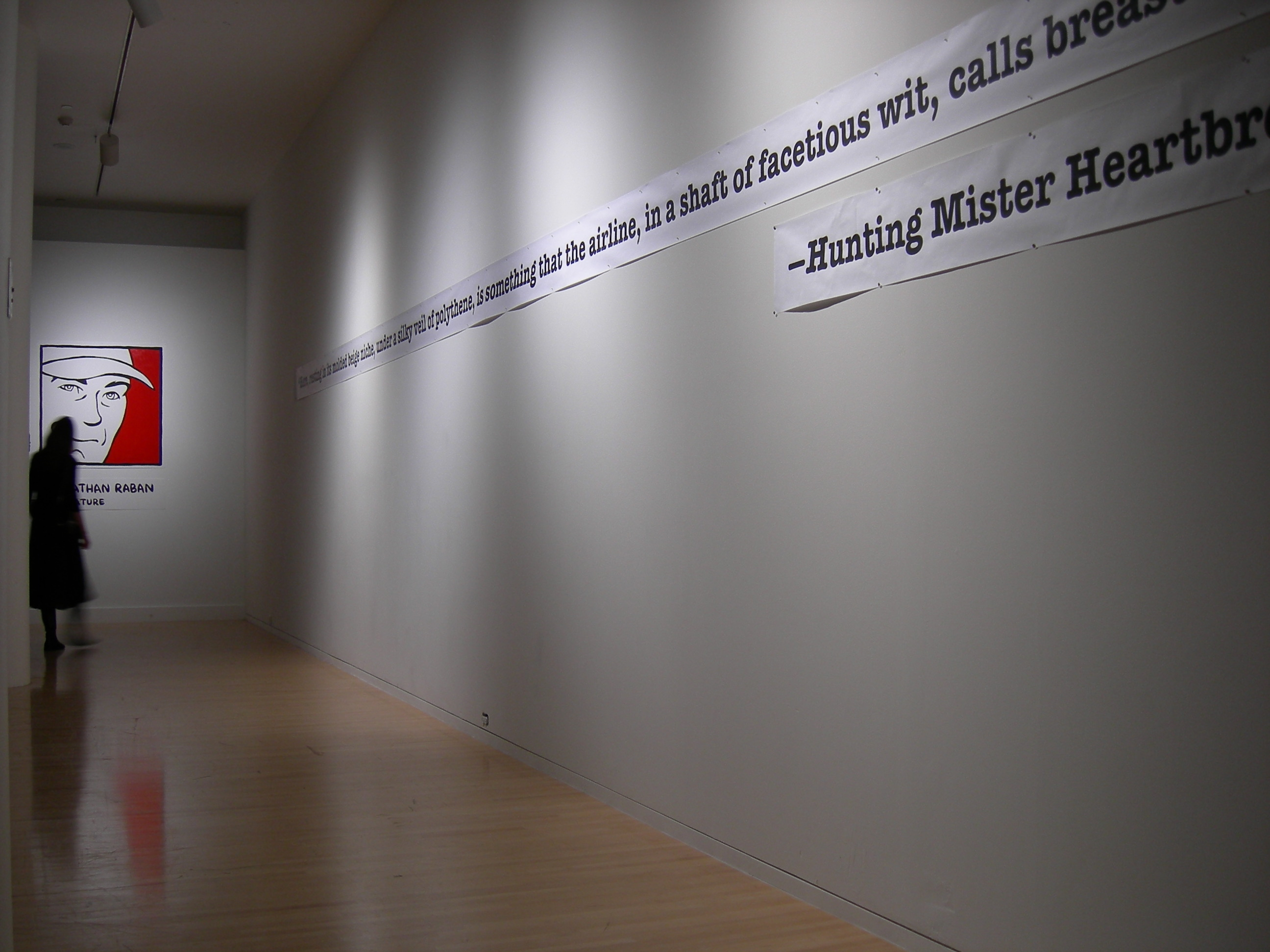 Exhibit honoring author Jonathan Raban, part of Take The Cake, a show honoring the winners of the Stranger Genius Awards, 2003–2006, Stroum Gallery (room), Henry Art Gallery (institution), University of Washington. The cartoon is by Ellen Forney.